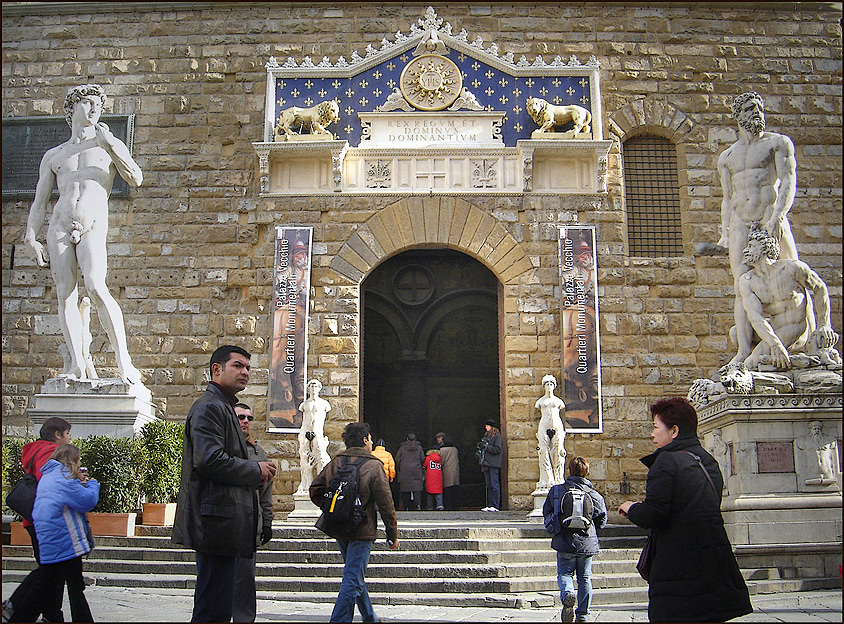 Main entrance of Palazzo Vecchio, Florence, Italy.